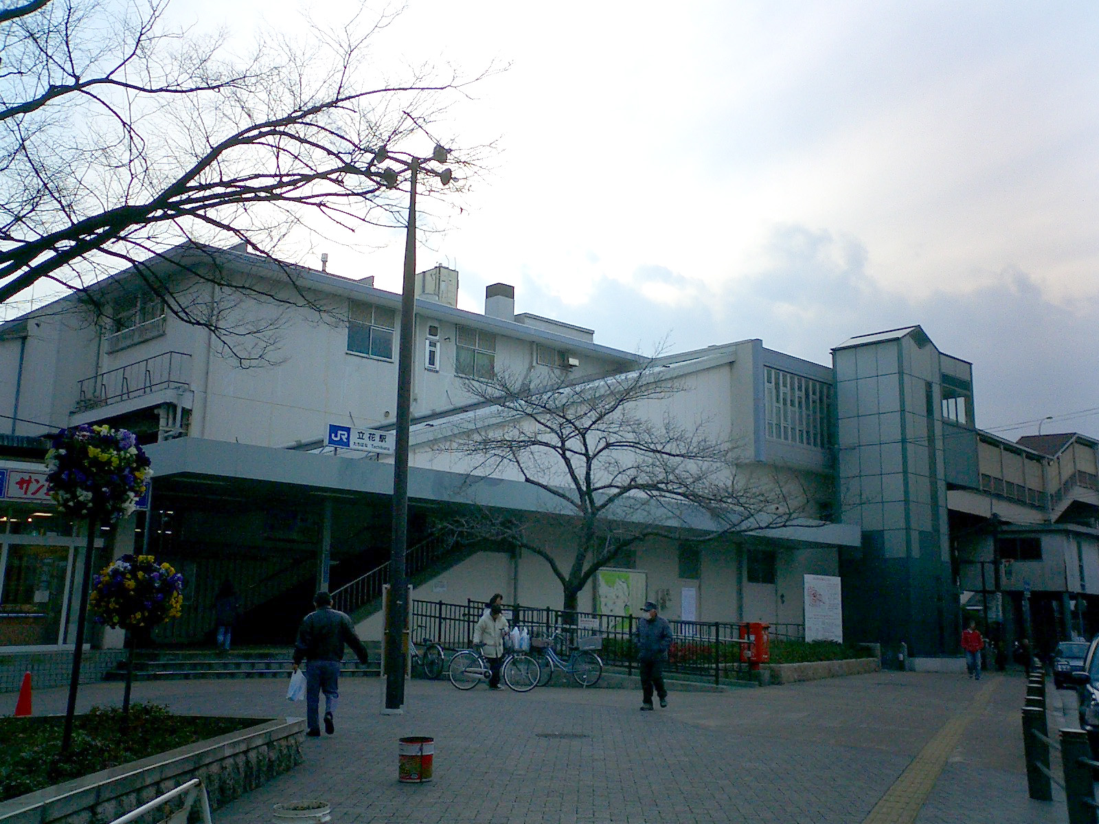 West Japan Railway Tōkaidō Main Line（JR Kōbe Line） Tachibana Station Building North Gate